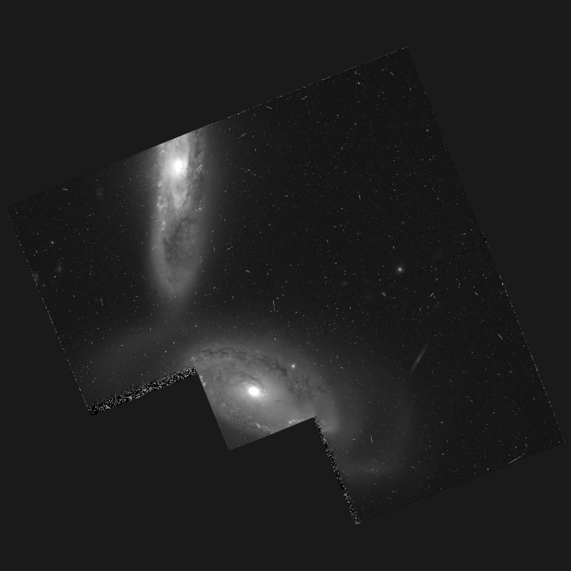 Color rendering is done by by Aladin-software (2000A&AS..143...33B.)